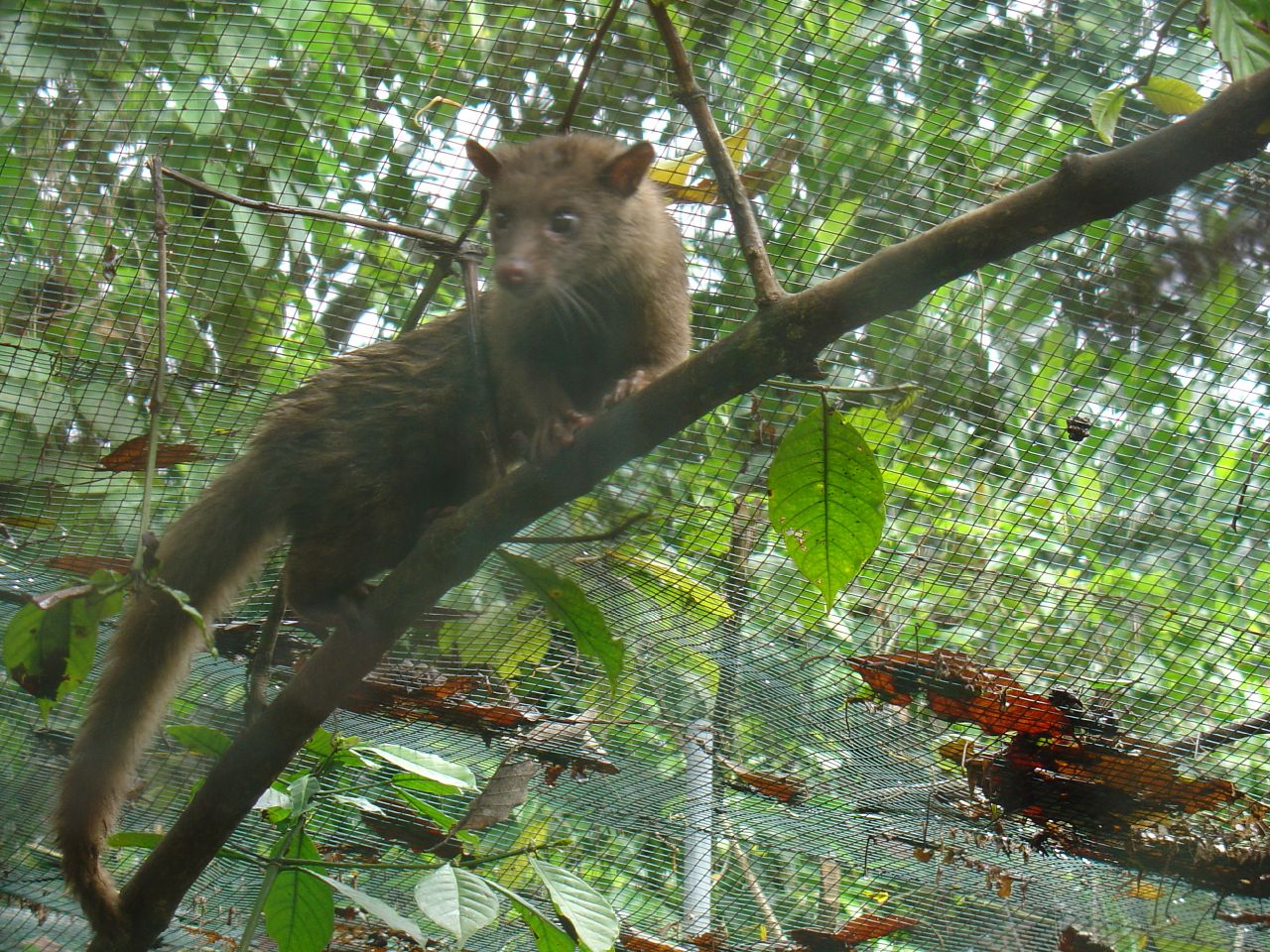 Asian Palm Civet Paradoxurus hermaphroditus